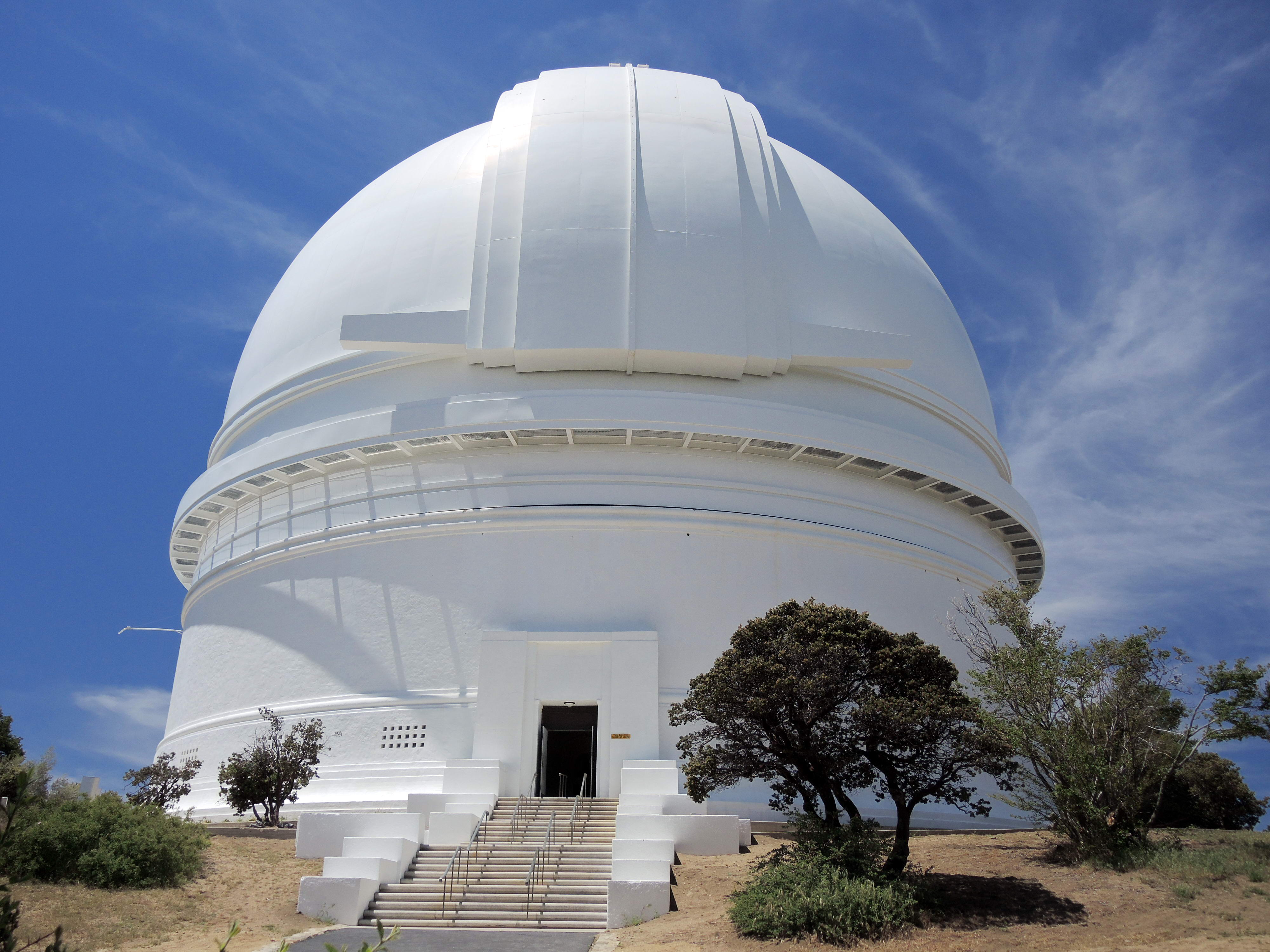 Photo of the front face of the Mt. Palomar Observatory taken on a Nikon P7800 in May 2014.